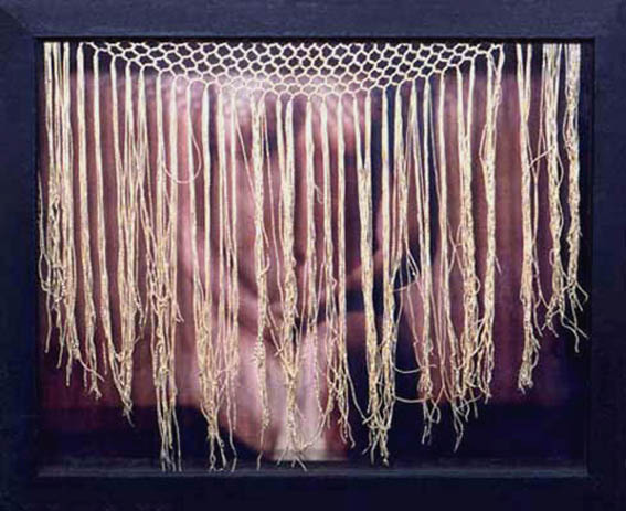 Photography